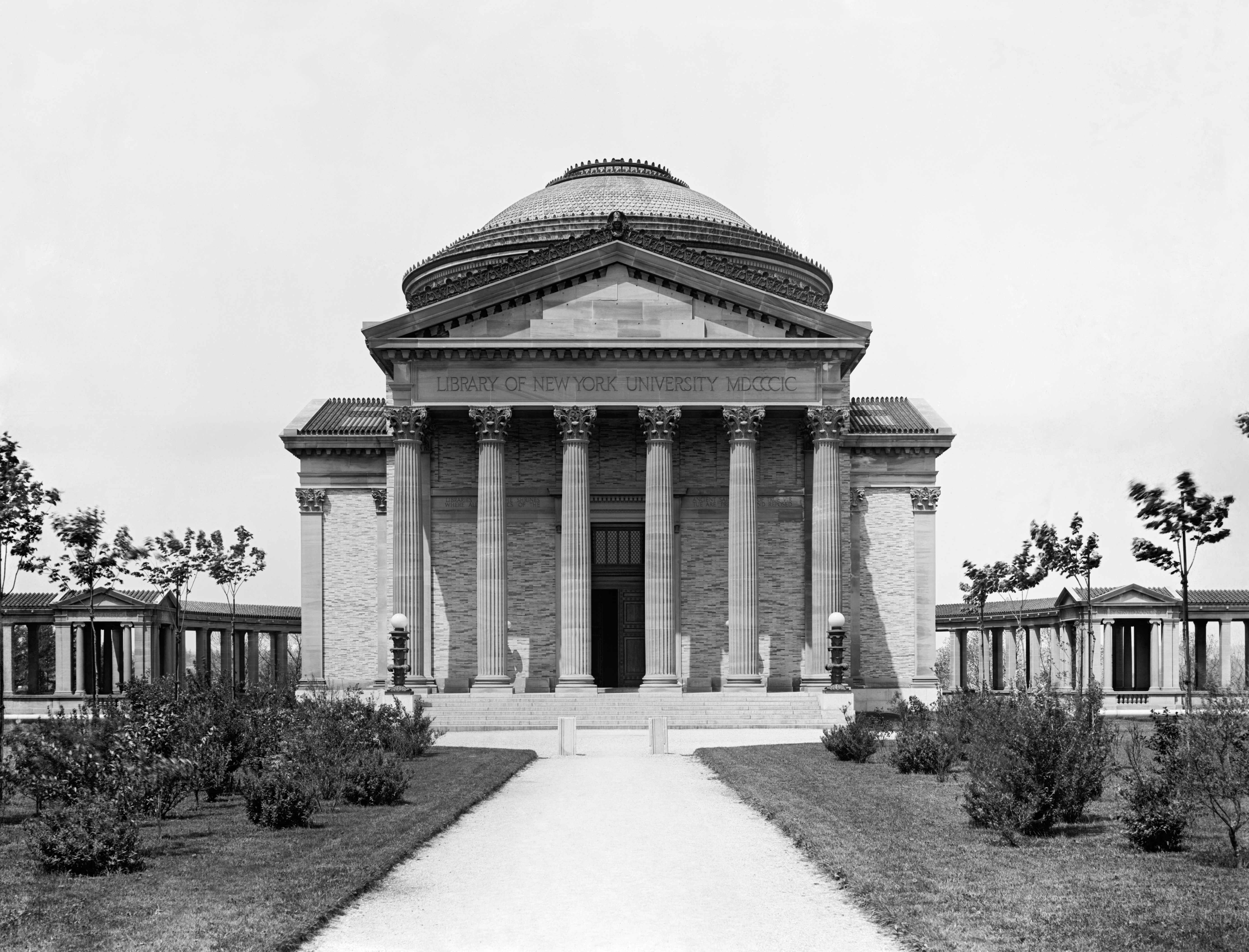 Period photograph of New York University library (Bronx campus), later converted to Bronx Community College.